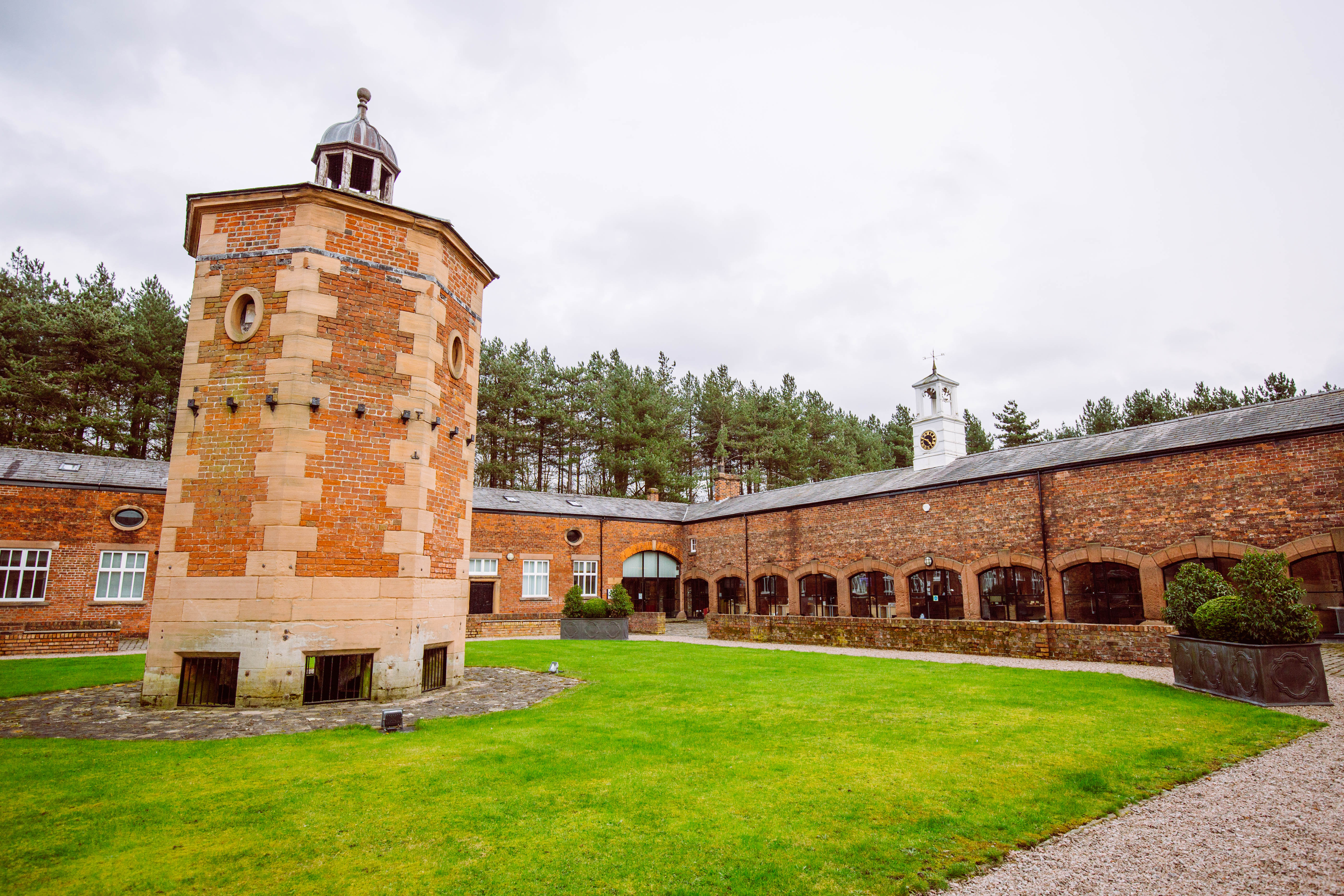 Exterior of Cybertill headoffice based in Knowsley, Liverpool